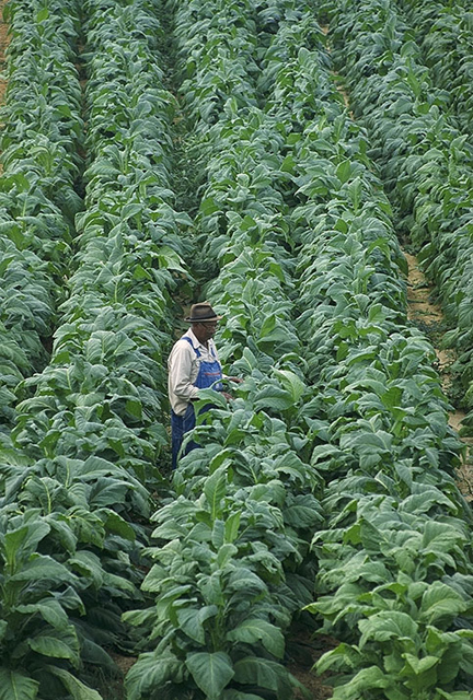 Willie Greeninge checks on his tobacco plants at his farm in Chatham, VA.